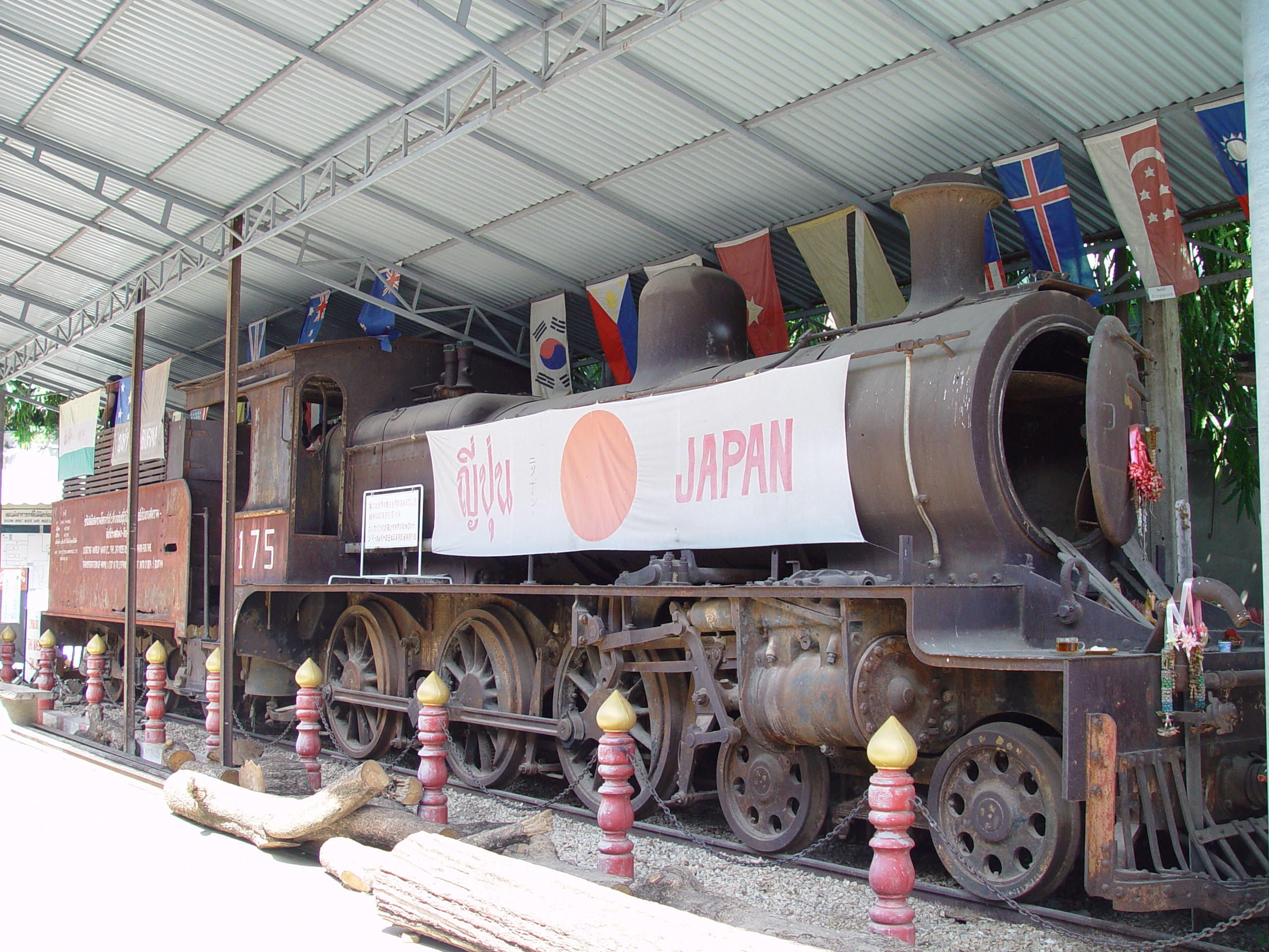 Locomotive in JEATH War Museum, Kanchanaburi, Thailand